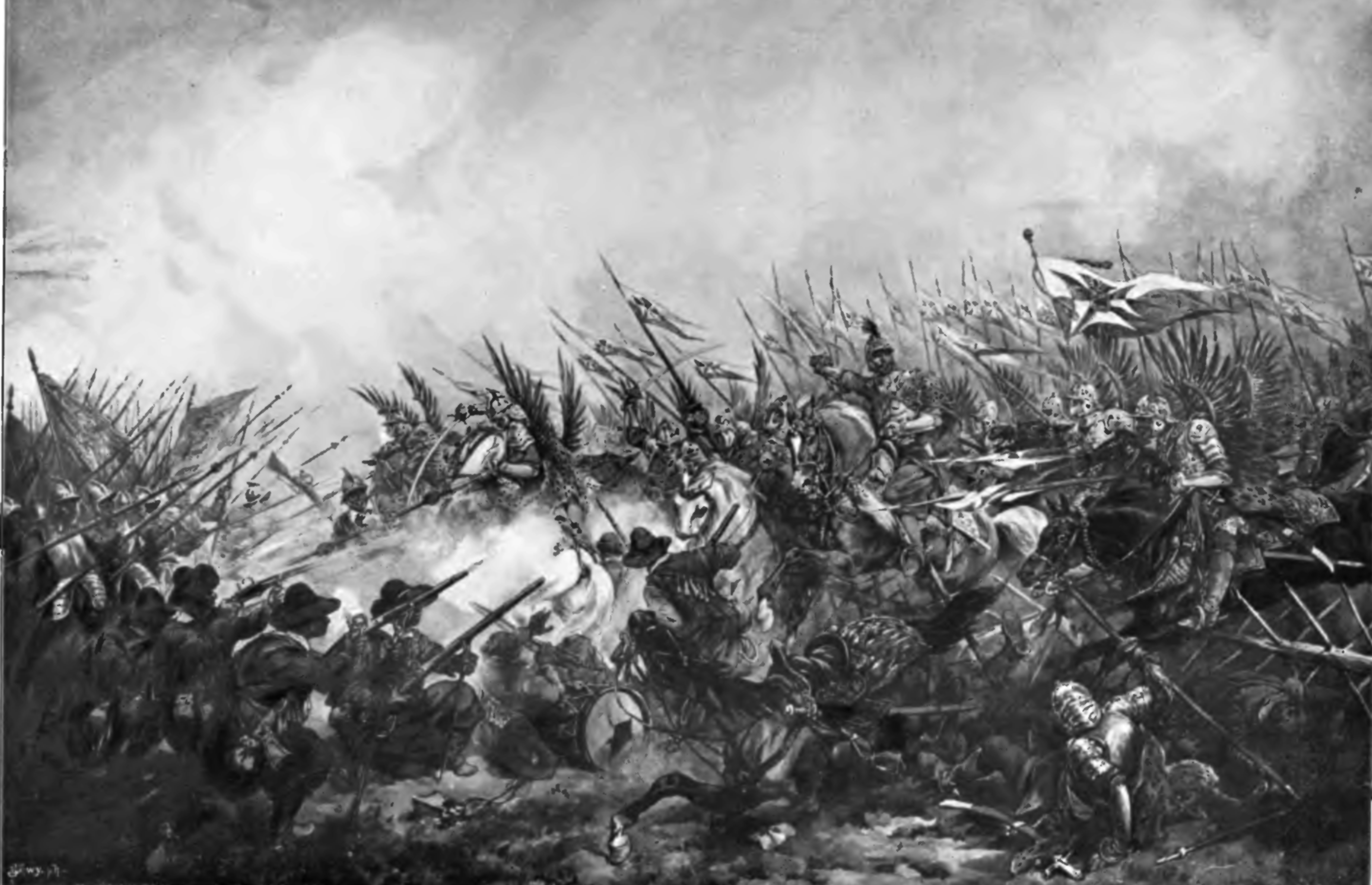 Battle of Kircholm 1605, choragiew of Jan Gniewosz assault